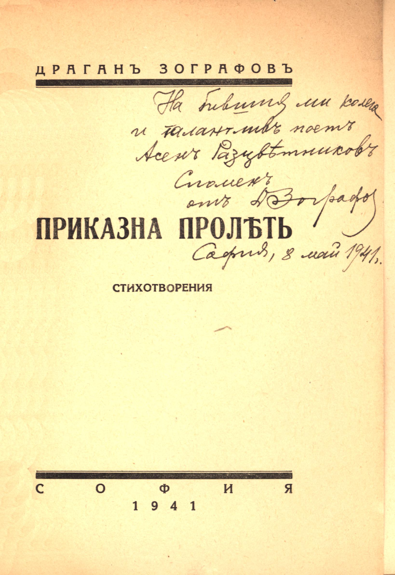 Prikazna Prolet Title Page